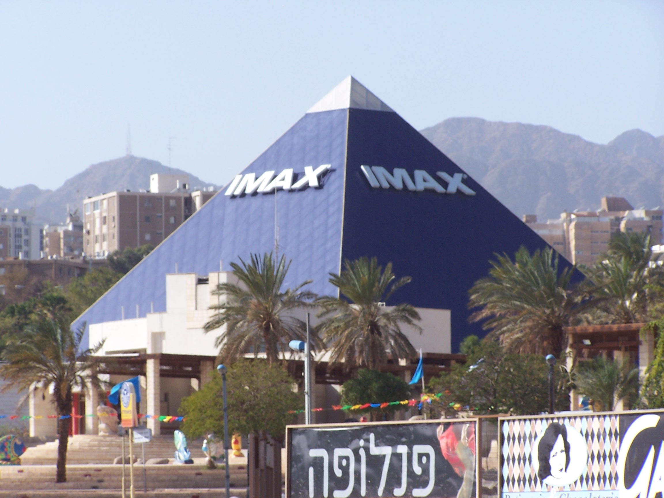 IMAX 3D cinema in Eilat, Israel